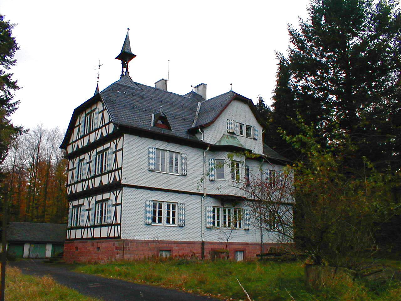 Schloss Luitpoldshöhe (Luitpoldshöhe Manor) in the Spessart mountains, Lower Franconia, Bavaria/Germany, photo taken by myself on November 1, 2006, GNU-FDL Schloss Luitpoldshöhe im Spessart bei Rohrbrunn, Unterfranken/Bayern, Foto selbst aufgenommen am 1. November 2006